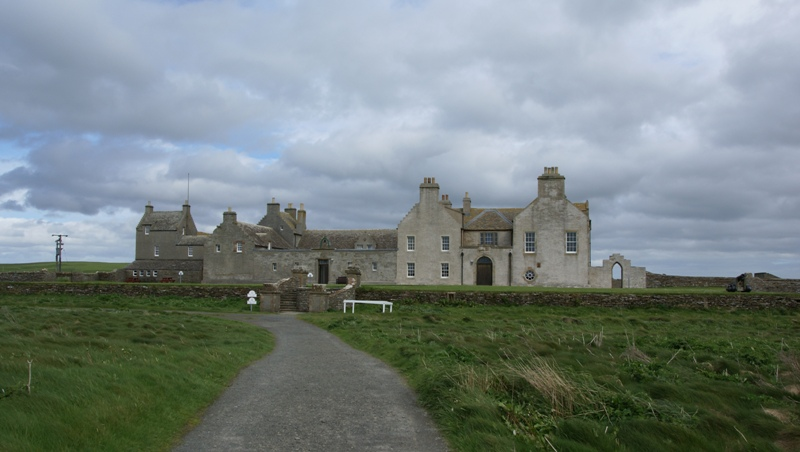 Skaill House, Mainland, Orkney, Scotland. View from the west.